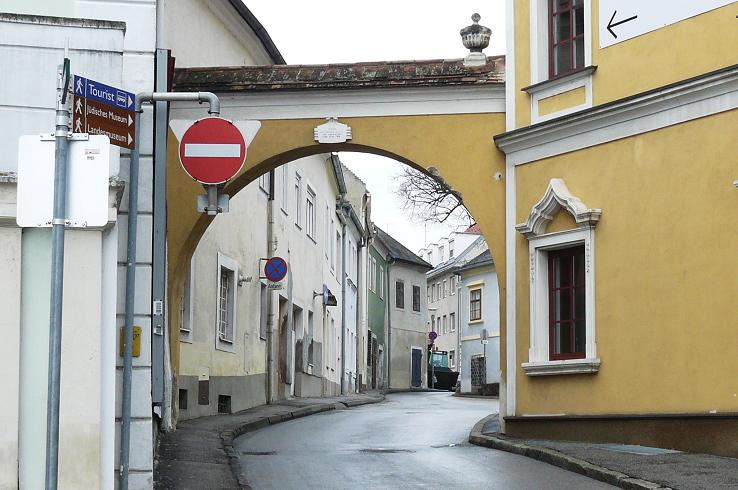 Eisenstadt - entry to ex ghetto.